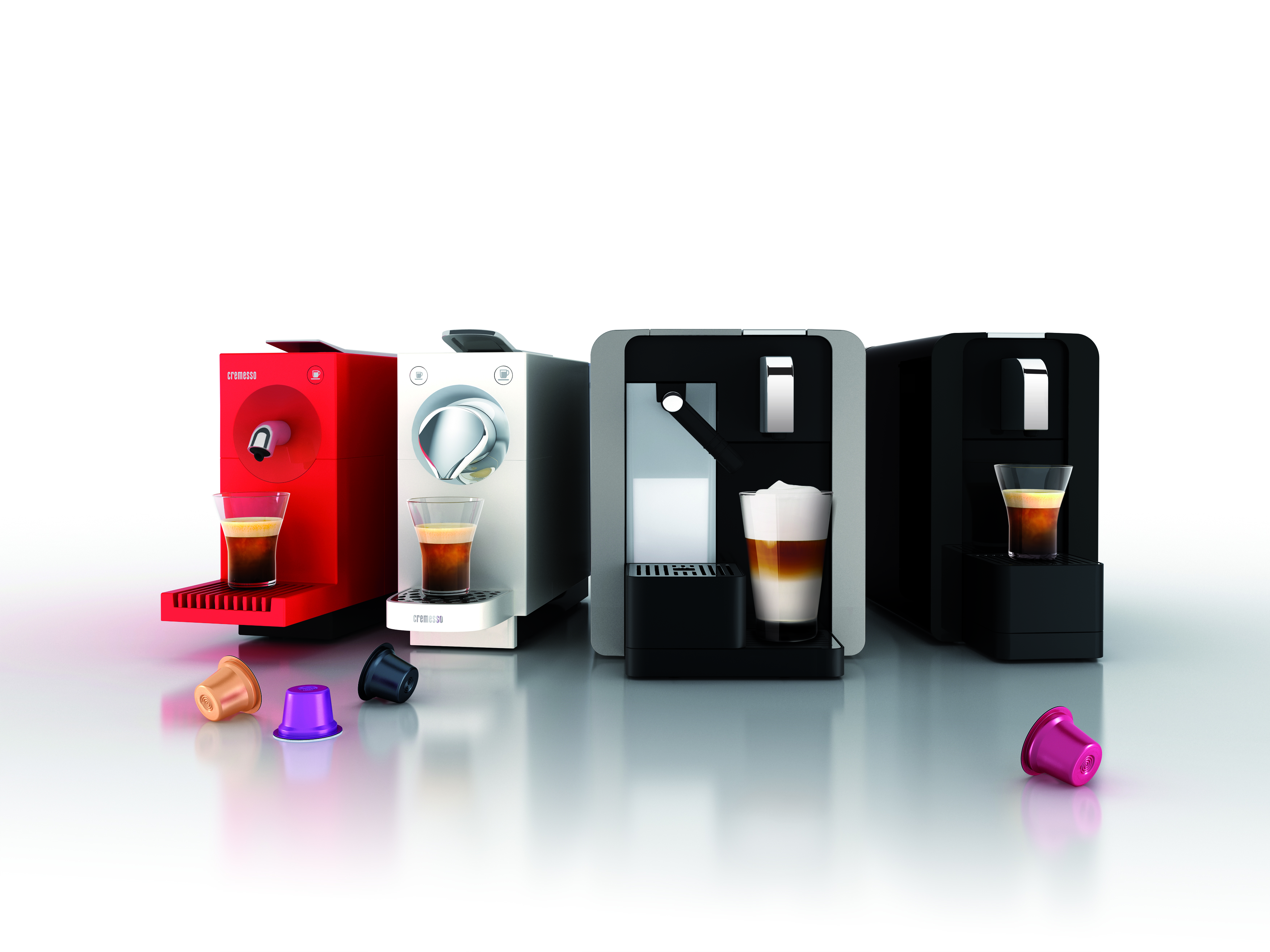 Cremesso machines